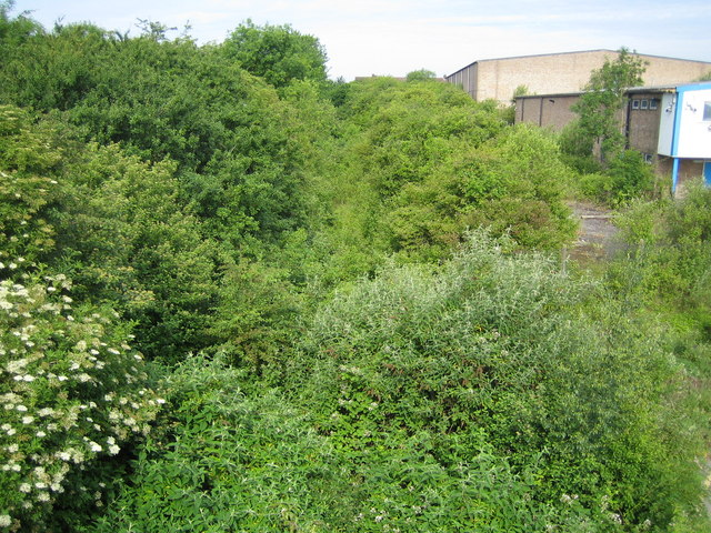 Luton: Disused railway. Underneath all this vegetation is the trackbed of the disused Luton to Dunstable railway line. Viewed from the Chaul End Lane overbridge, the trackbed would form the primary route for the proposed Luton Dunstable Translink. The Translink website is here